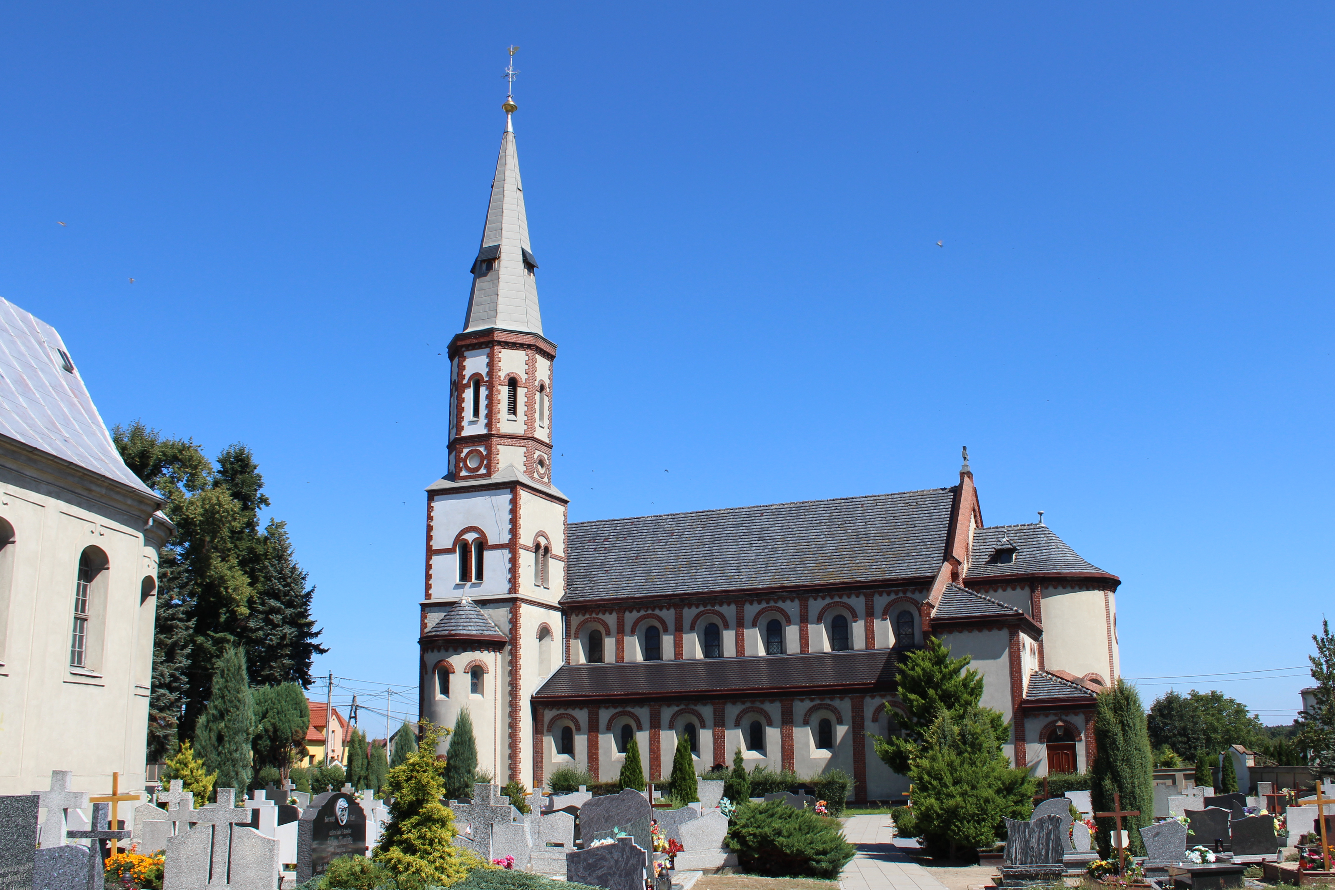 Exaltation of the Holy Cross church in Wierzbie, Poland.